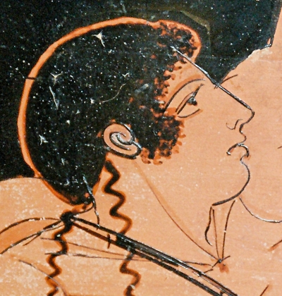 Theseus, detail from a scene representing the gathering of the Argonauts (?). Side A from an Attic red-figure calyx-krater, ca. 460–450 BC. From Orvieto (Volsinii).